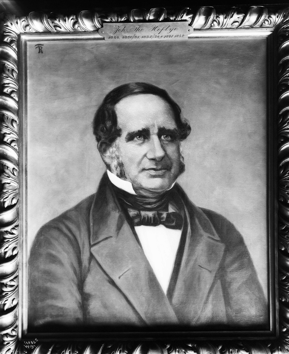 Norwegian businessman and politician Joh. Tho. Heftye (1792–1856). This painting is in the gallery of the Oslo Stock Exchange where Heftye was member of the board (the years indicated on the frame itself, above Heftye's head)